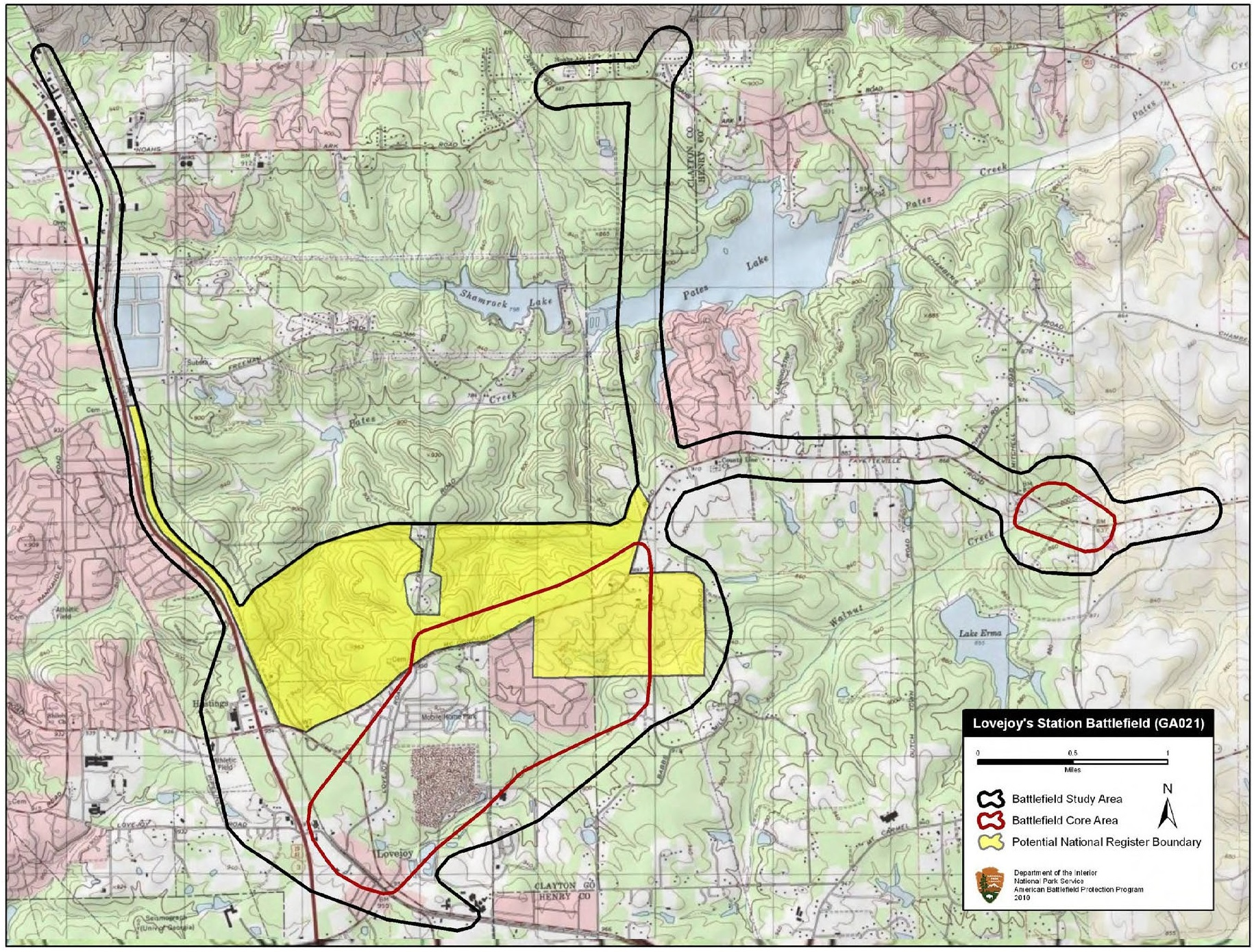 Map of battlefield core and study areas. The ABPP completely redrew the 1993 boundaries for Lovejoy’s Station. The new Study Area gives a more complete picture of the Federal approach from the northeast toward Lovejoy’s Station, and the Confederate response along the Macon & Western Railroad. The Study Area was expanded to the east to include the fighting at Nash Farm and the rearguard action at Walnut Creek. The Core Areas for both of those engagements were delineated based on recent archaeological studies.